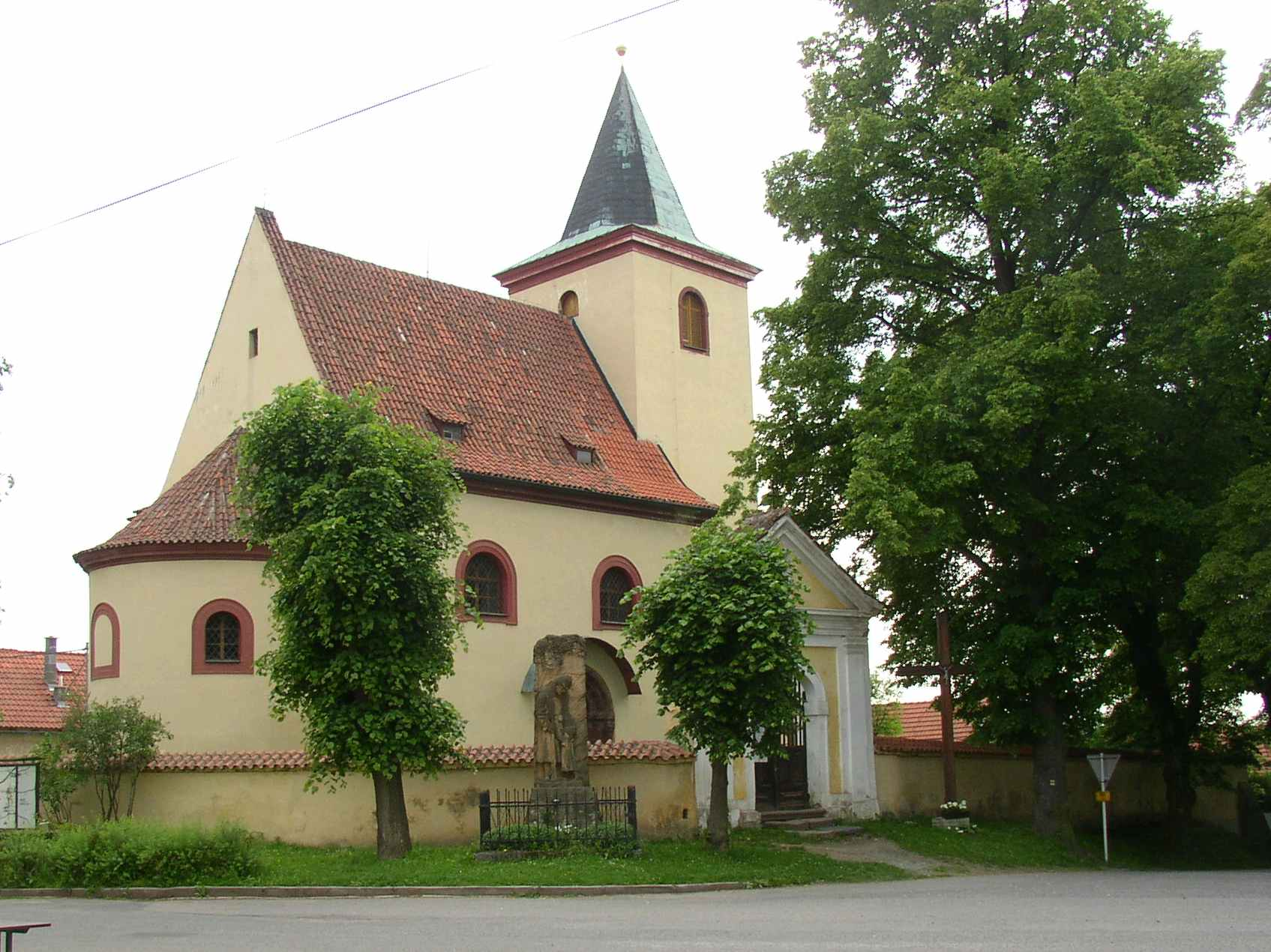 St Wenceslas church in Hrusice, a village 30 km southeast of Prague, Czech Republic. Major part of the late-Romanesque building originates from first half of 13th century.